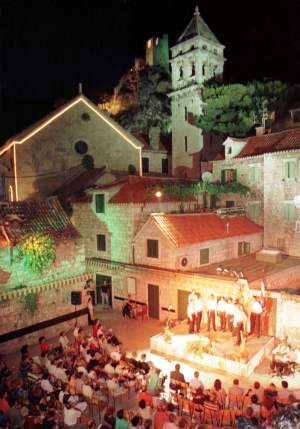 Festival of Dalmatia a capella singing groups